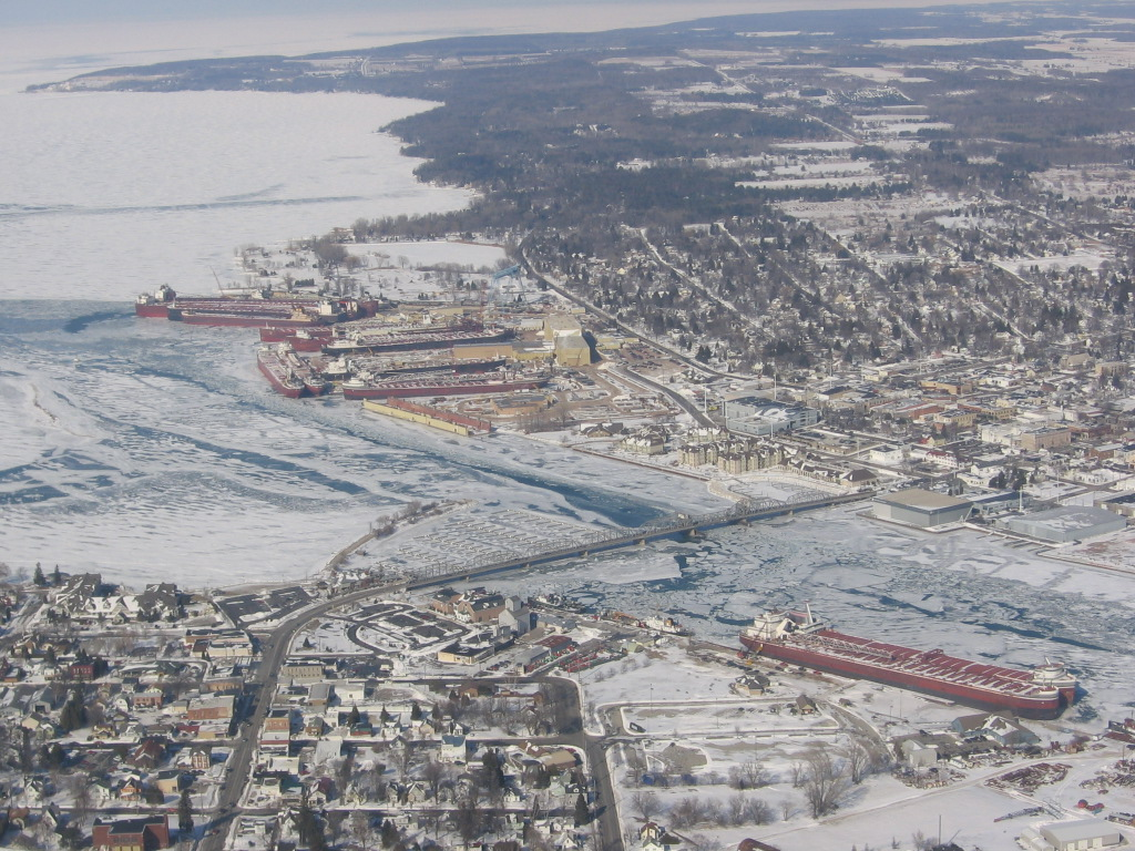 Aerial view of Sturgeon Bay, during the winter. Thirteen lake freighters are in winter layup. The Michigan Street Bridge, part of Business Highway 42/57, is in the center.